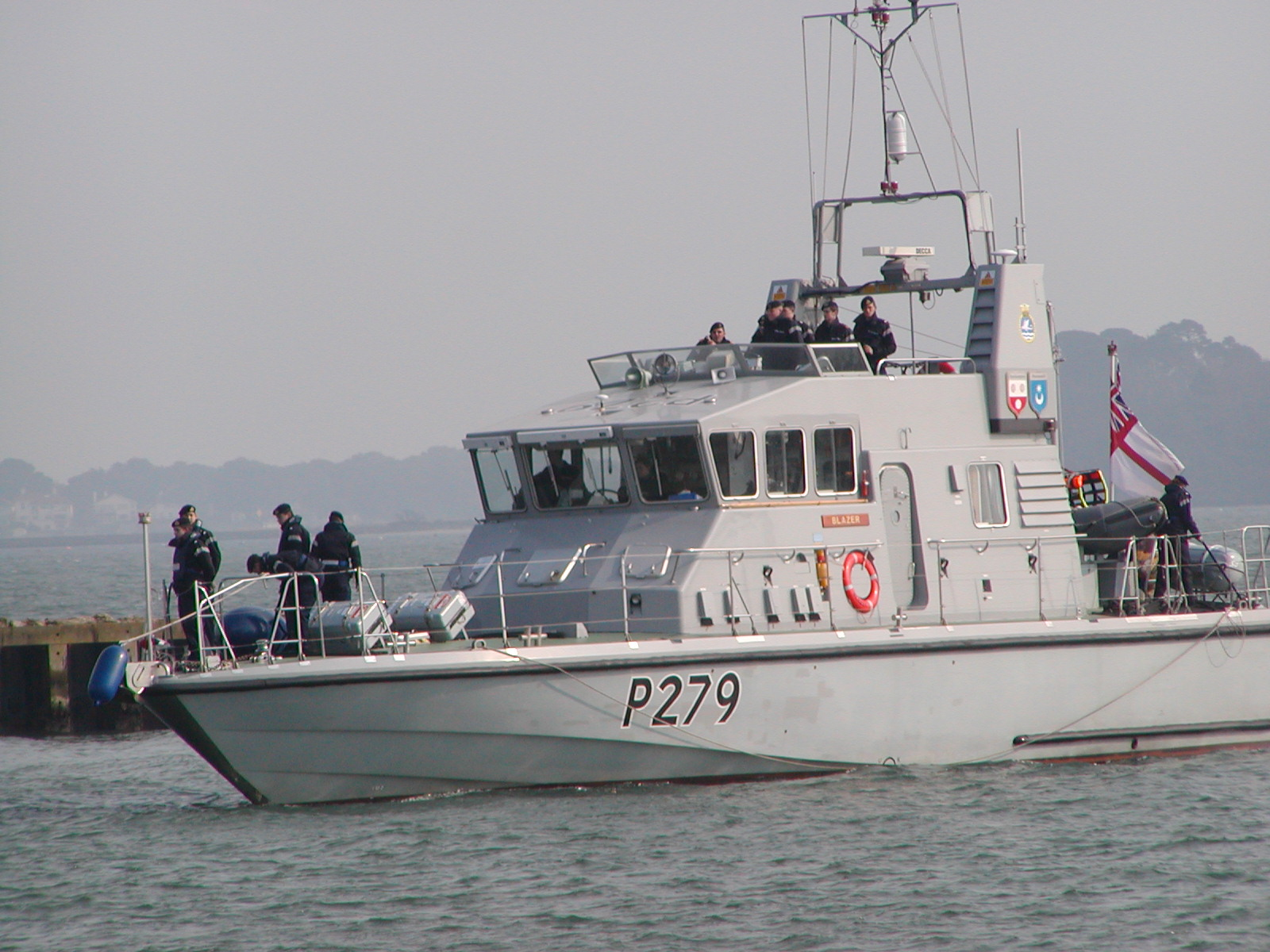 Photograph of HMS Blazer (P279) at Pool Harbour, March 2007.